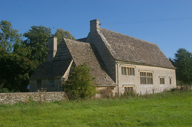 Kelmscott Memorial Hall View of rear elevation. Designed by Ernest Gimson (1864-1919), but not built until after his death. The building was commissioned by May Morris, daughter of William Morris (1834-1896) of Kelmscott Manor. The Hall was officially opened by George Bernard Shaw in October 1934.